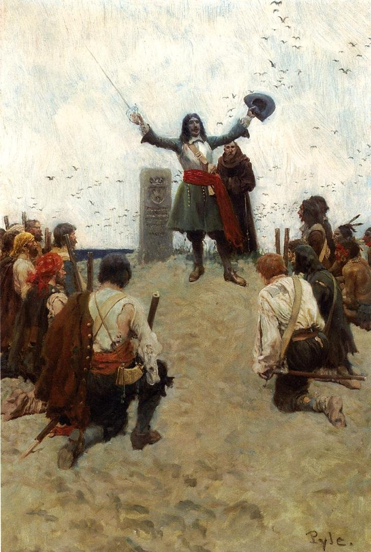 La Salle Christening the country "Louisiana"